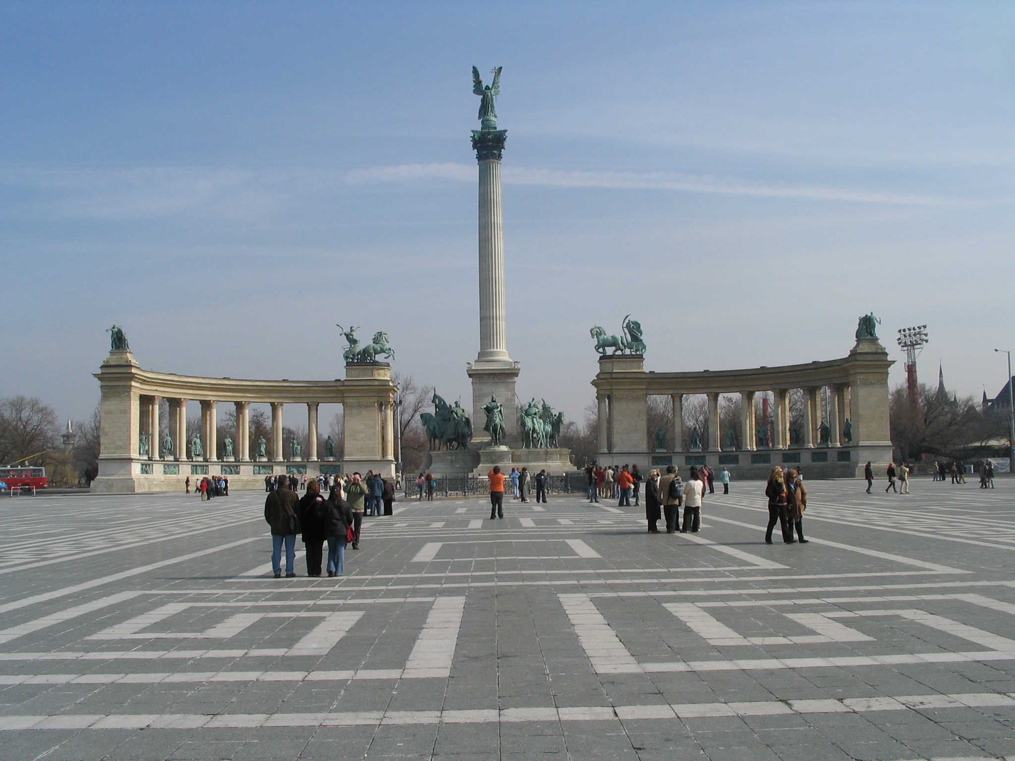 Heroes’ square in Budapest, Hungary